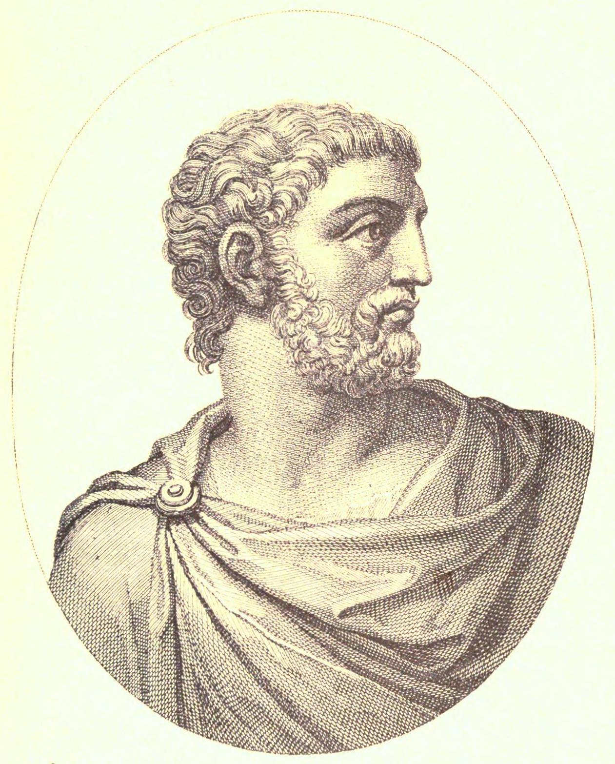 Bust of Alcibiades. Page 95 of The World's Famous Orations, Vol. 1. Cropped.